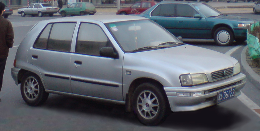 Xiali TJ7101 or TJ7131 in Tianjin, China